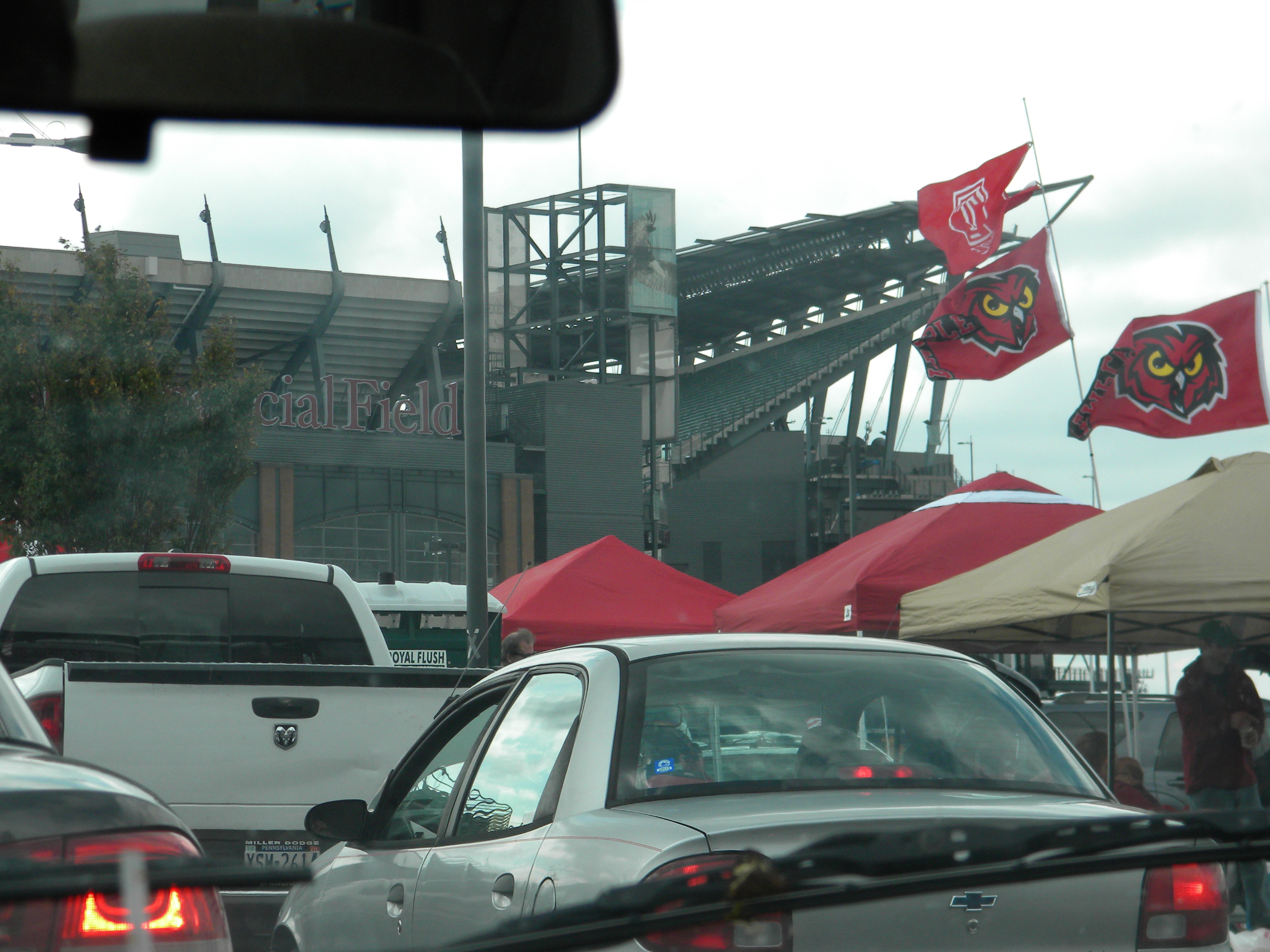 Lincoln Financial Field before a Temple game in 2011.